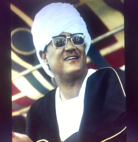 Personal family photo.